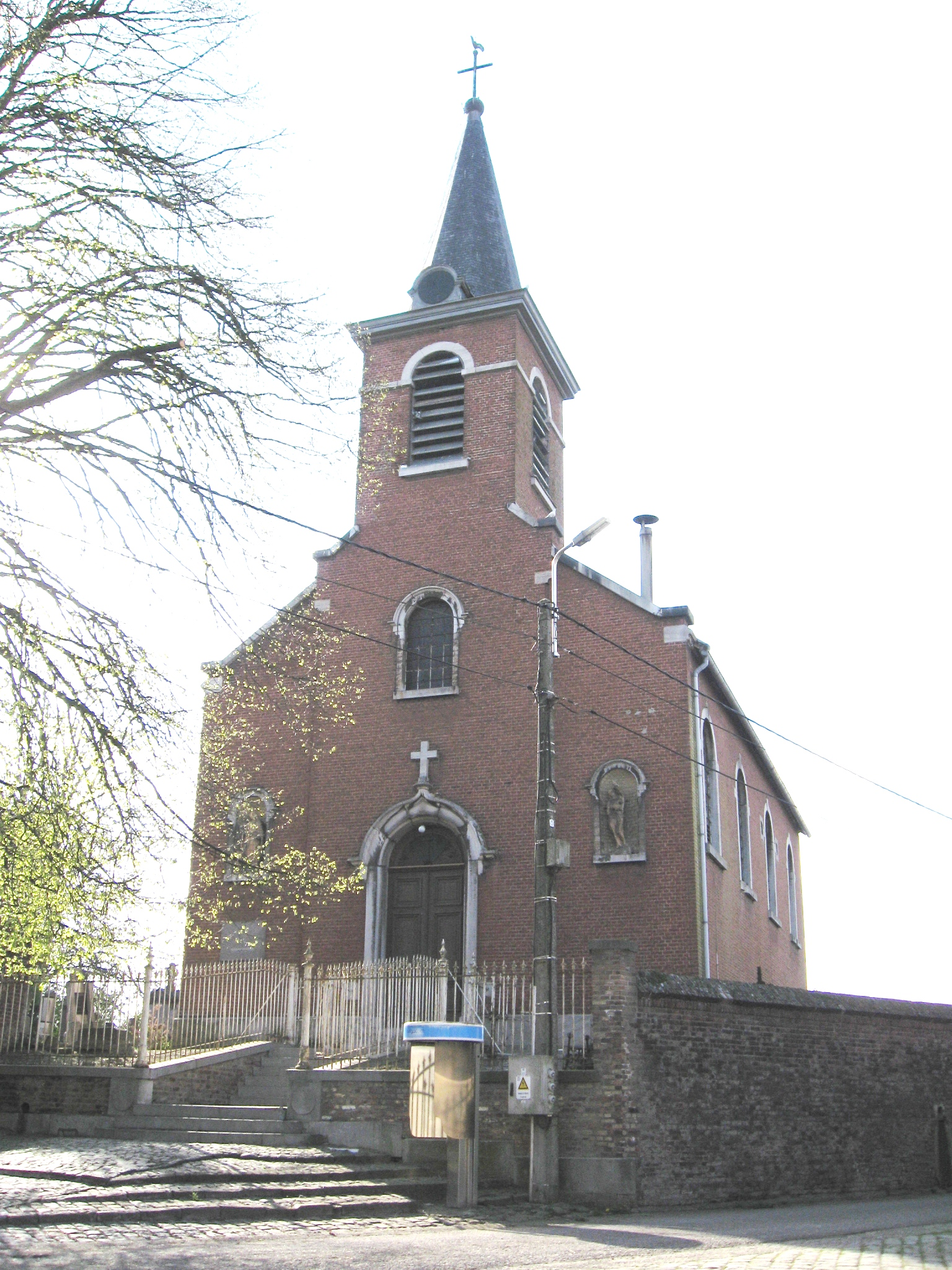 Church of Saint Sebastian in Lantremange, Waremme, Liège, Belgium